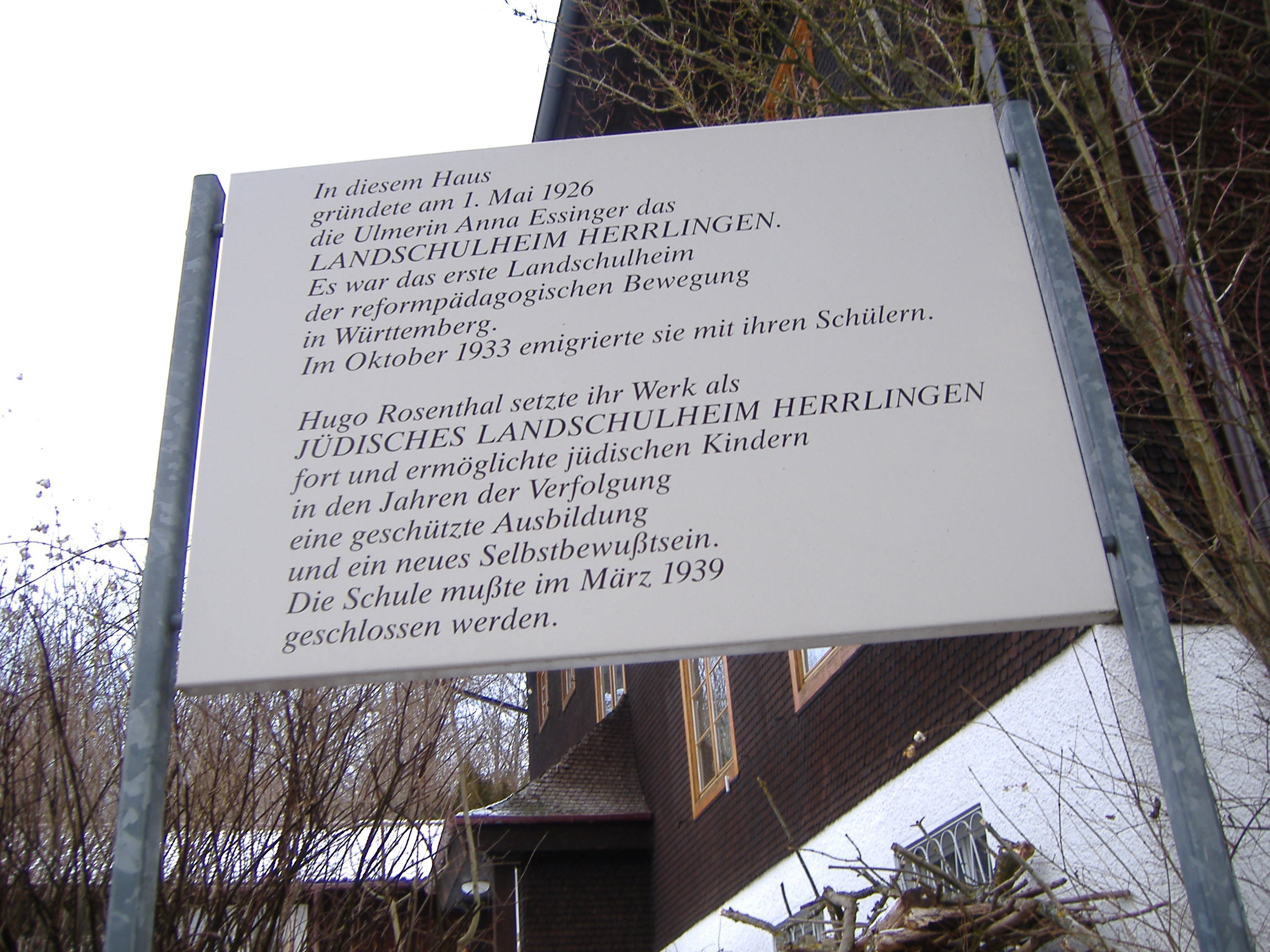 Plaque at the former Landschulheim Herrlingen, founded in 1926 by Anna Essinger, who moved the school to England after the Nazis seized power. The new school was officially called New Herrlingen, but came to be known after the name of the house in Kent, where they moved, Bunce Court. Landschulheim Herrlingen continued as a Jewish school for a few years, but was then closed. The property was then turned into a way station for elderly Jews, which was then also closed when the occupants were deported to extermination camps. The plaque reads, "Ulm native Anna Essinger founded the HERRLINGEN BOARDING SCHOOL in this house on May 1, 1926. It was the progressive education movement's first private boarding school in Württemberg. She left [Germany] with her pupils in October 1933. Hugo Rosenthal carried her work forward as the HERRLINGEN JEWISH BOARDING SCHOOL and during the years of persecution, enabled Jewish children [to have] a protected education and a new self-awareness. The school had to close in March 1939."